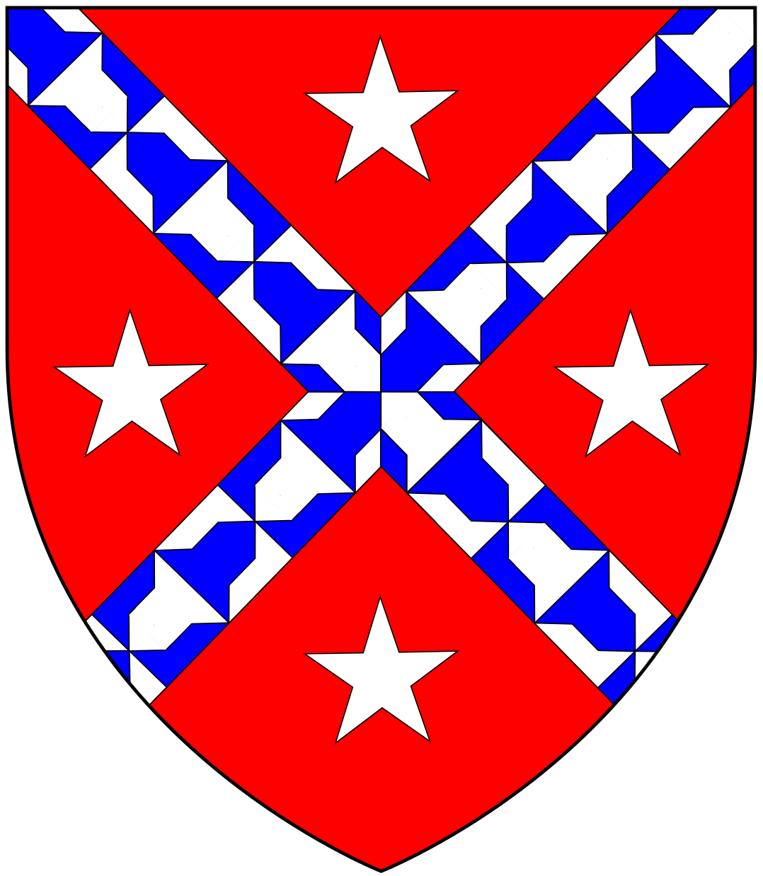 Arms of Hill of Hill's Court, Exeter, Devon: Gules, a saltire vair between four mullets argent (Source: Pole, Sir William (d.1635), Collections Towards a Description of the County of Devon, Sir John-William de la Pole (ed.), London, 1791, p.487). Similar to arms of Hill of Houndston, Dorset, which show mullets pierced